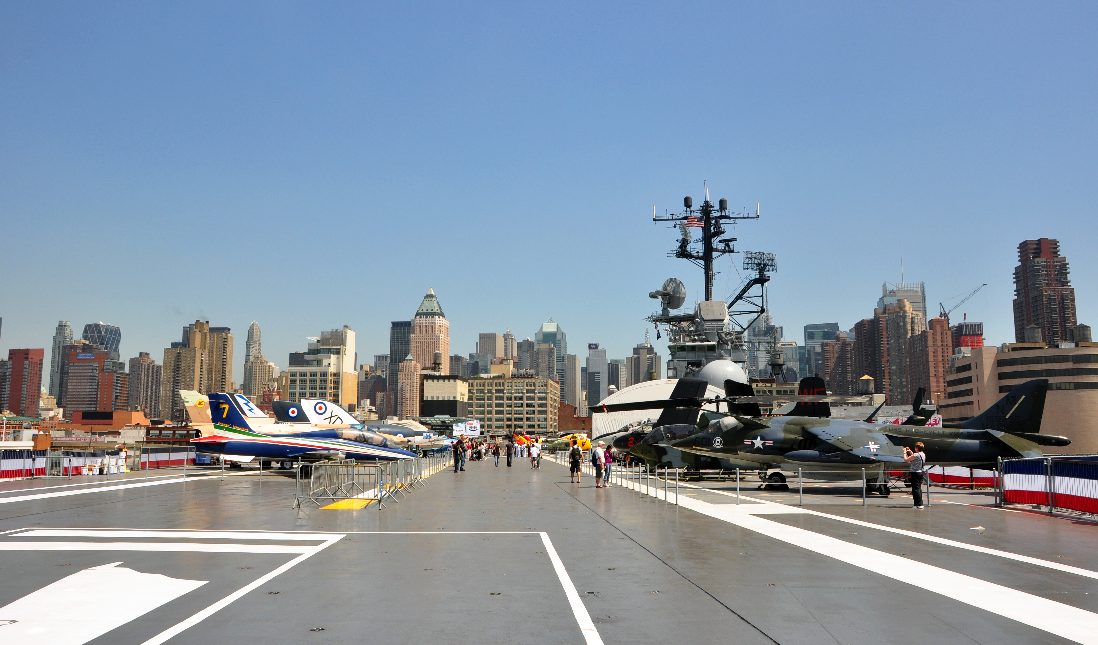 USS Intrepid flight deck Manhattan 2010